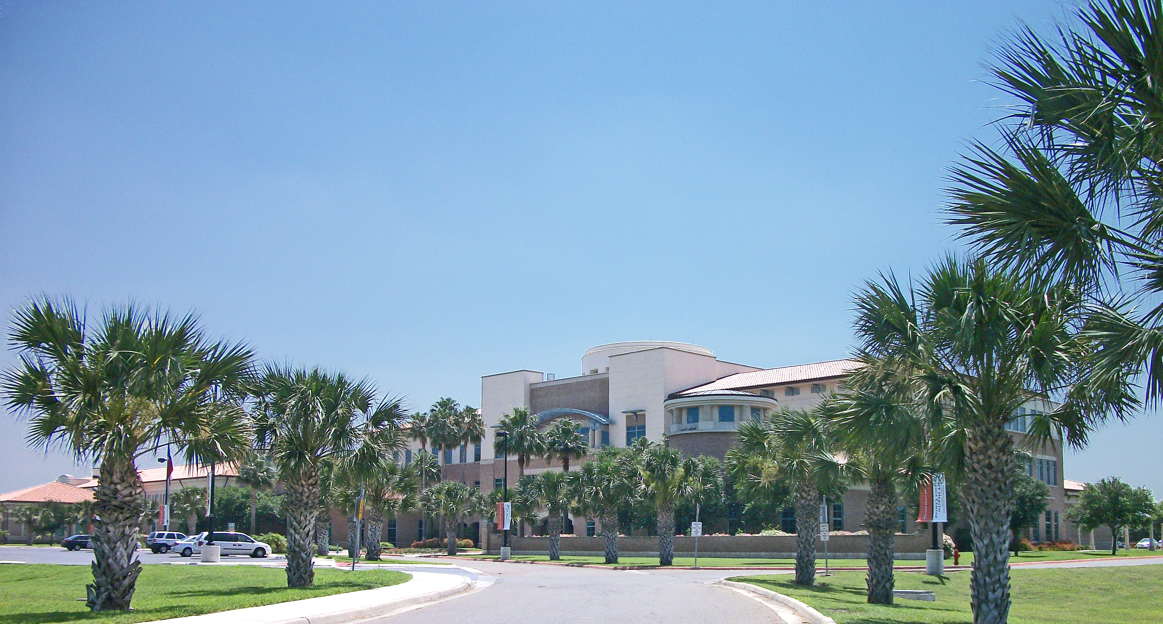 The University of Texas Rio Grande Valley Medical School